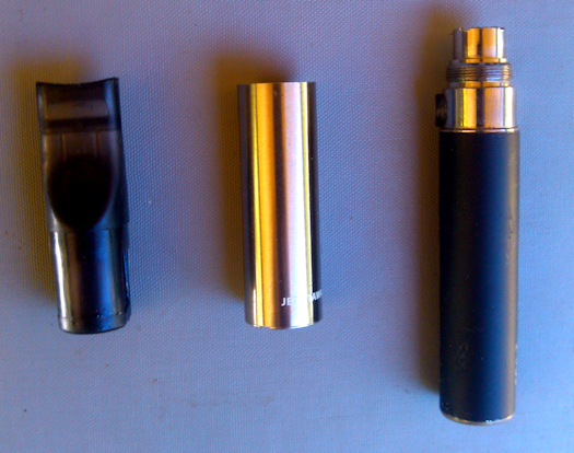 E-cigarette taken apart